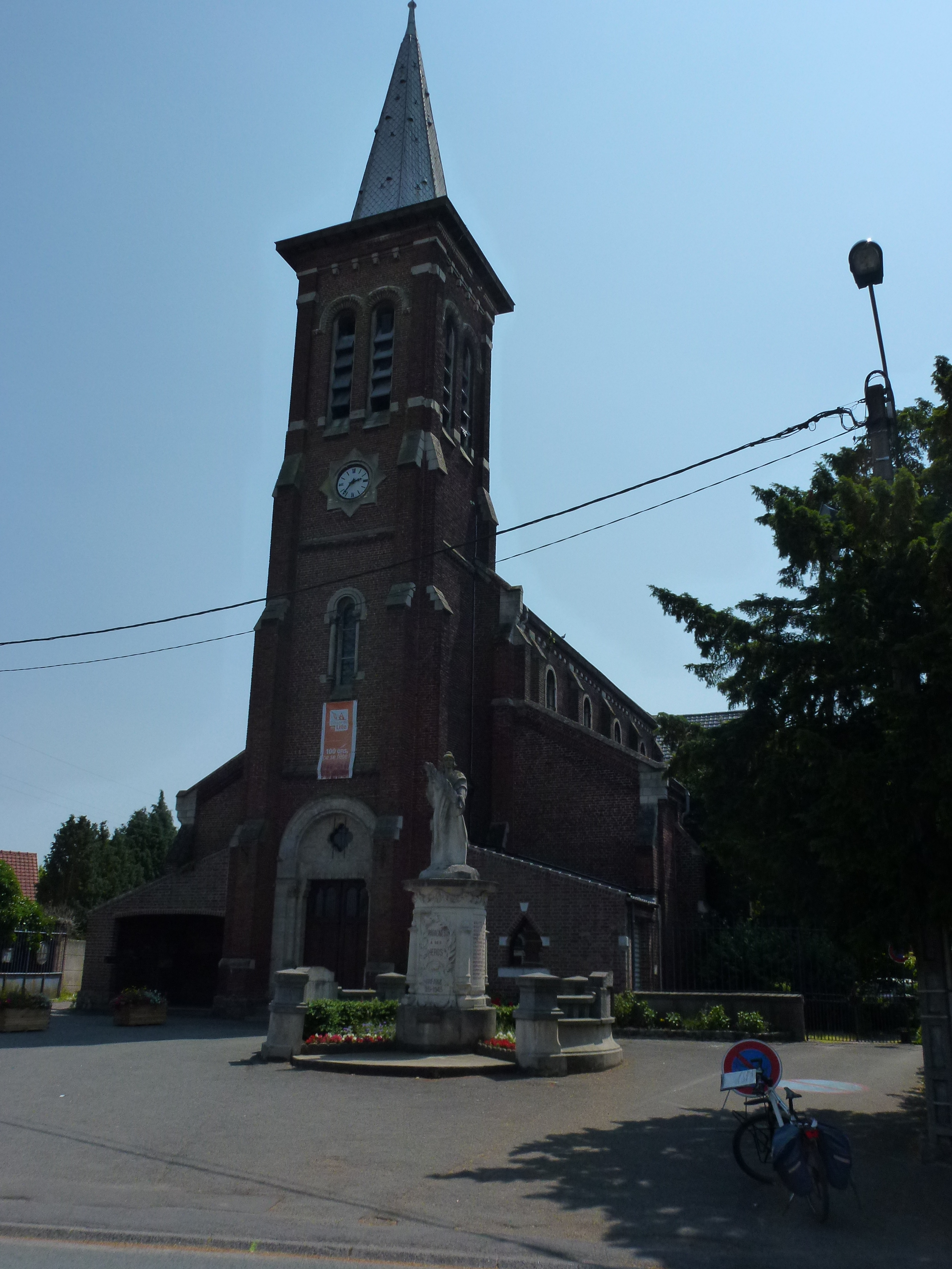 Wahagnies (Nord, Fr) église